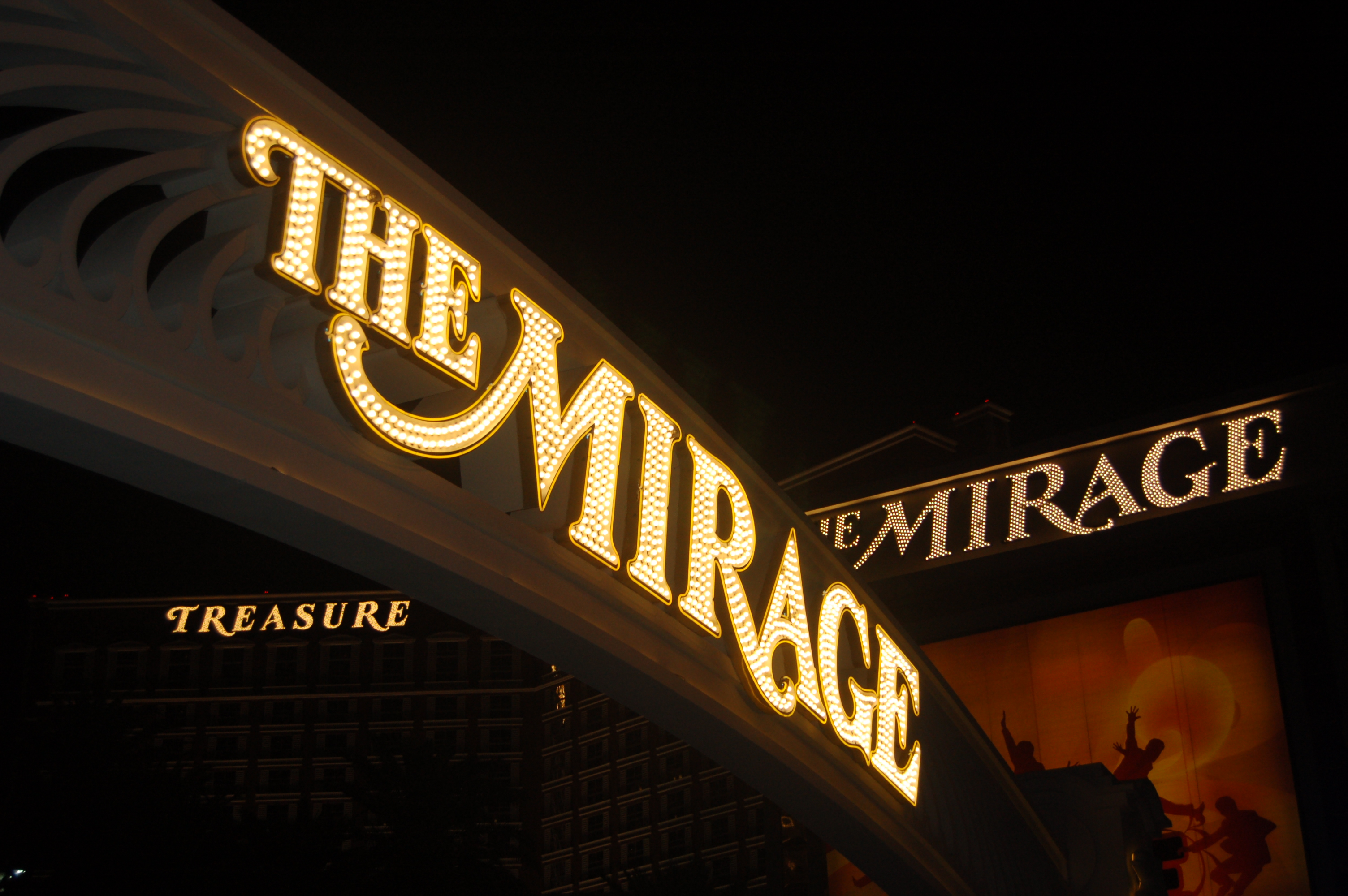 The Mirage, Las Vegas